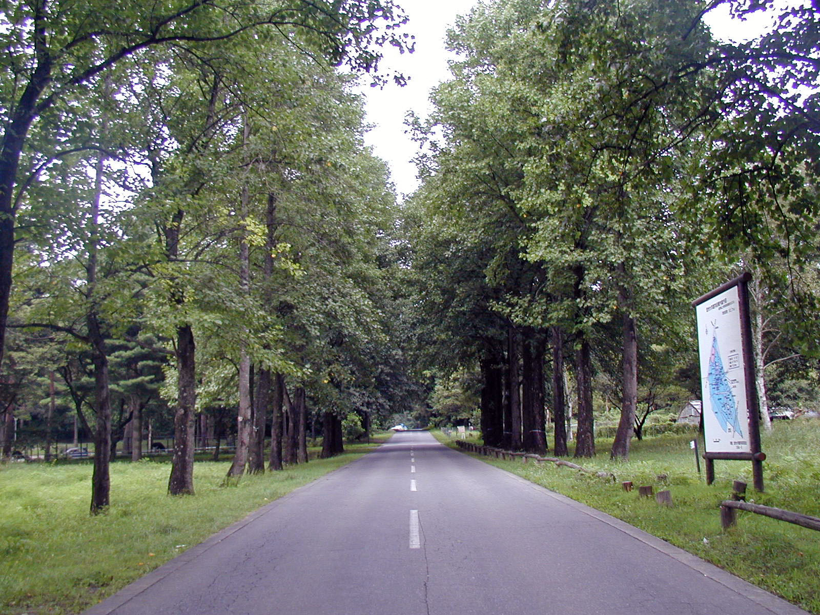 View at the Shinshu University agricultural department, located in Minamiminowa, Nagano, Japan.